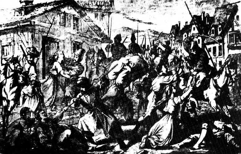 The Tatars attack the Caucasian German village of Katherinenfeld (now Bolnisi, Georgia) during the Russo-Persian war. 14 August 1826.